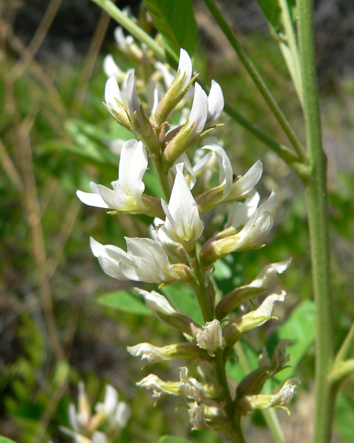 Glycyrrhiza lepidota on path to Crystal Spring, Ash Meadows National Wildlife Refuge, southern Nevada